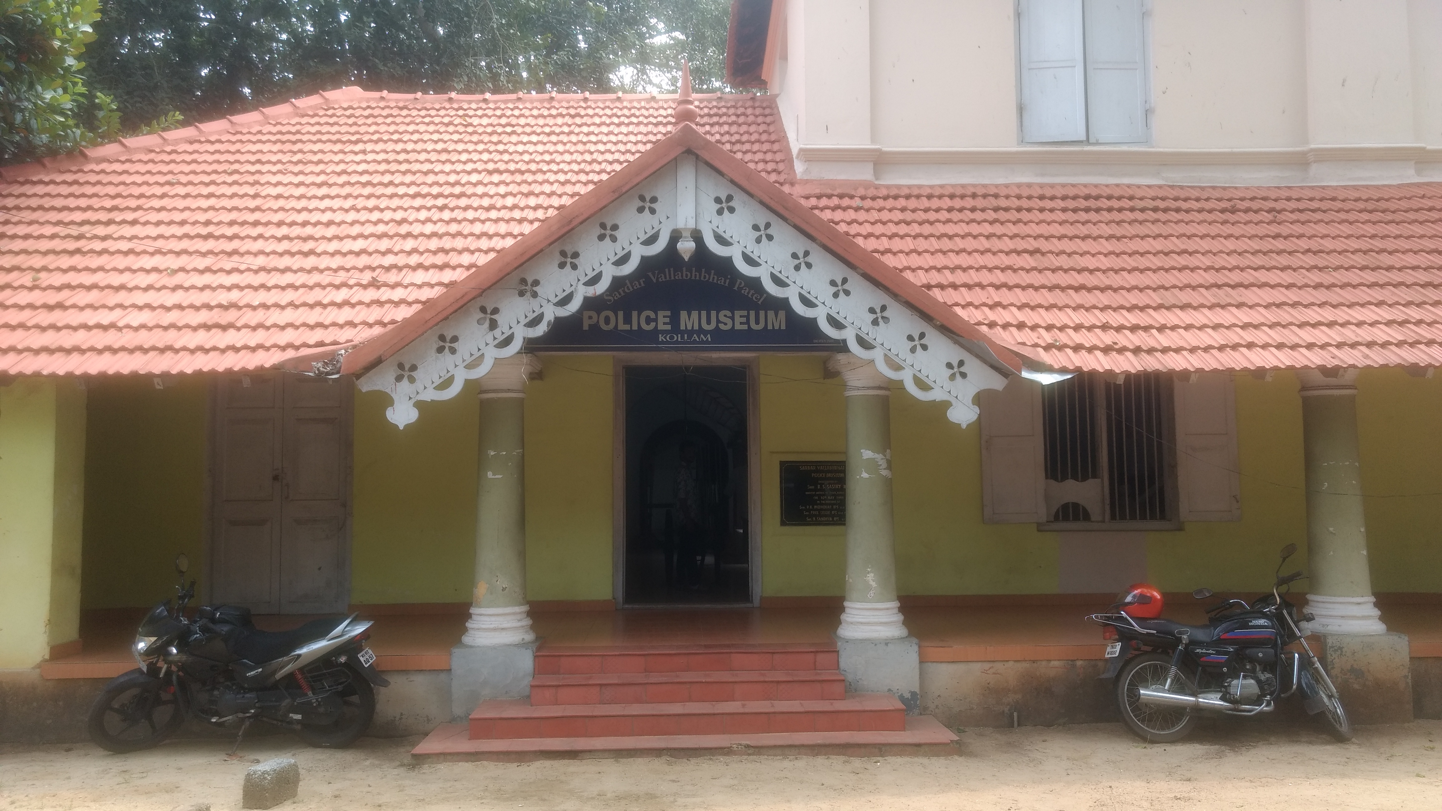 Sardar Vallabhai Patel Police Museum is located at Kollam, Kerala, india